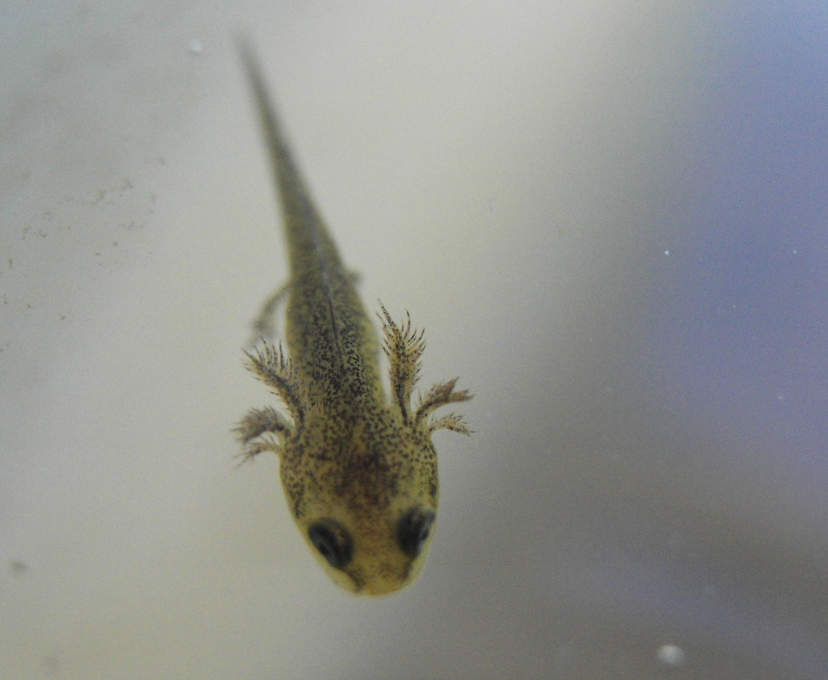 A newt larvae, length 15 mm, gills showing: three on each side